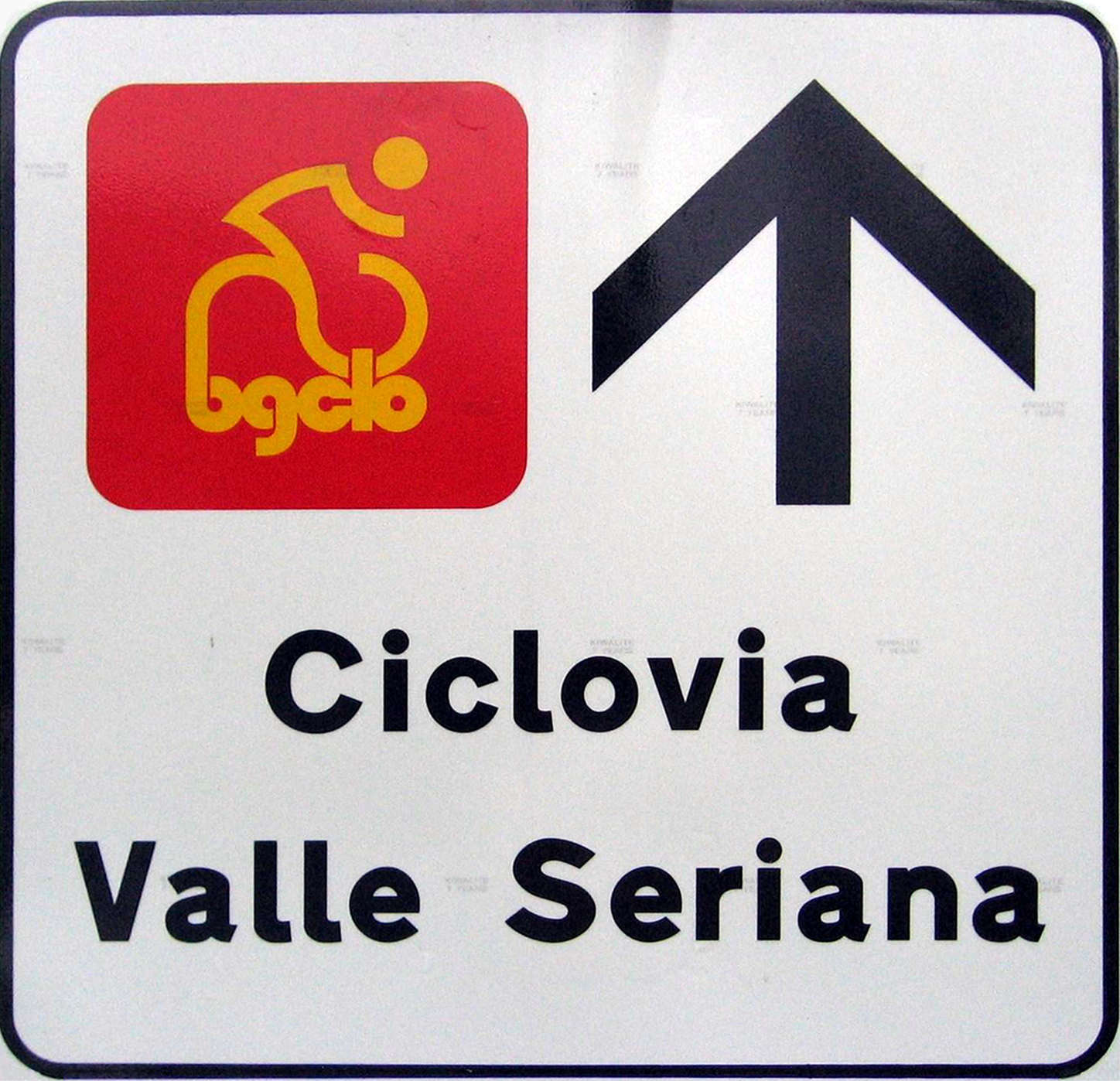 Valle Seriana cicleway panel